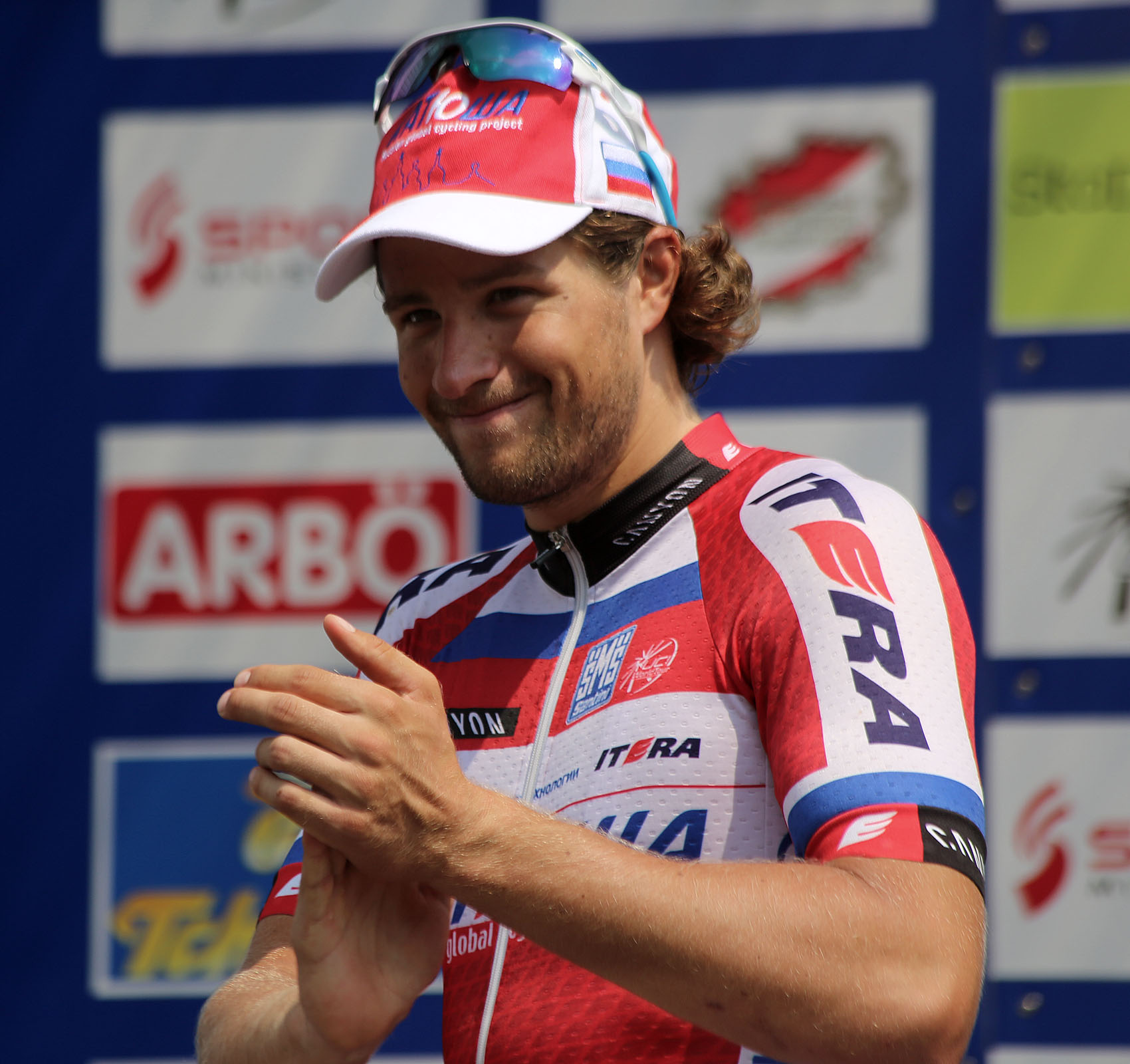 Marco Haller after finishing the final stage of the Tour of Austria in Vienna, Austria.